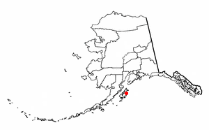 Adapted from Wikipedia's AK borough maps by Seth Ilys.